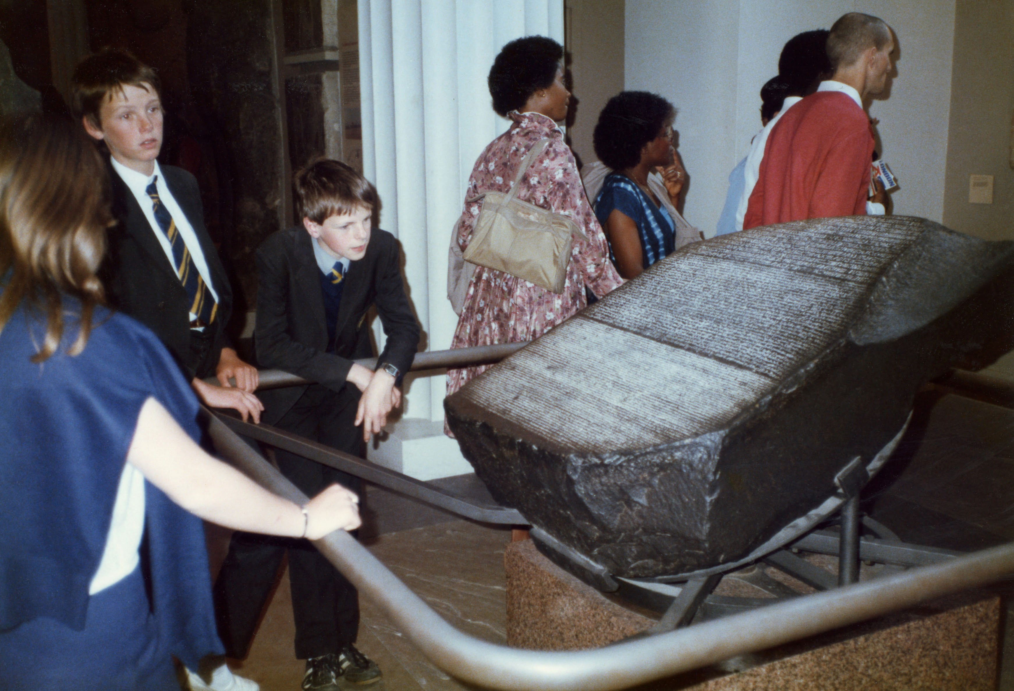 Patrons at the British Museum view the Rosetta Stone in 1985